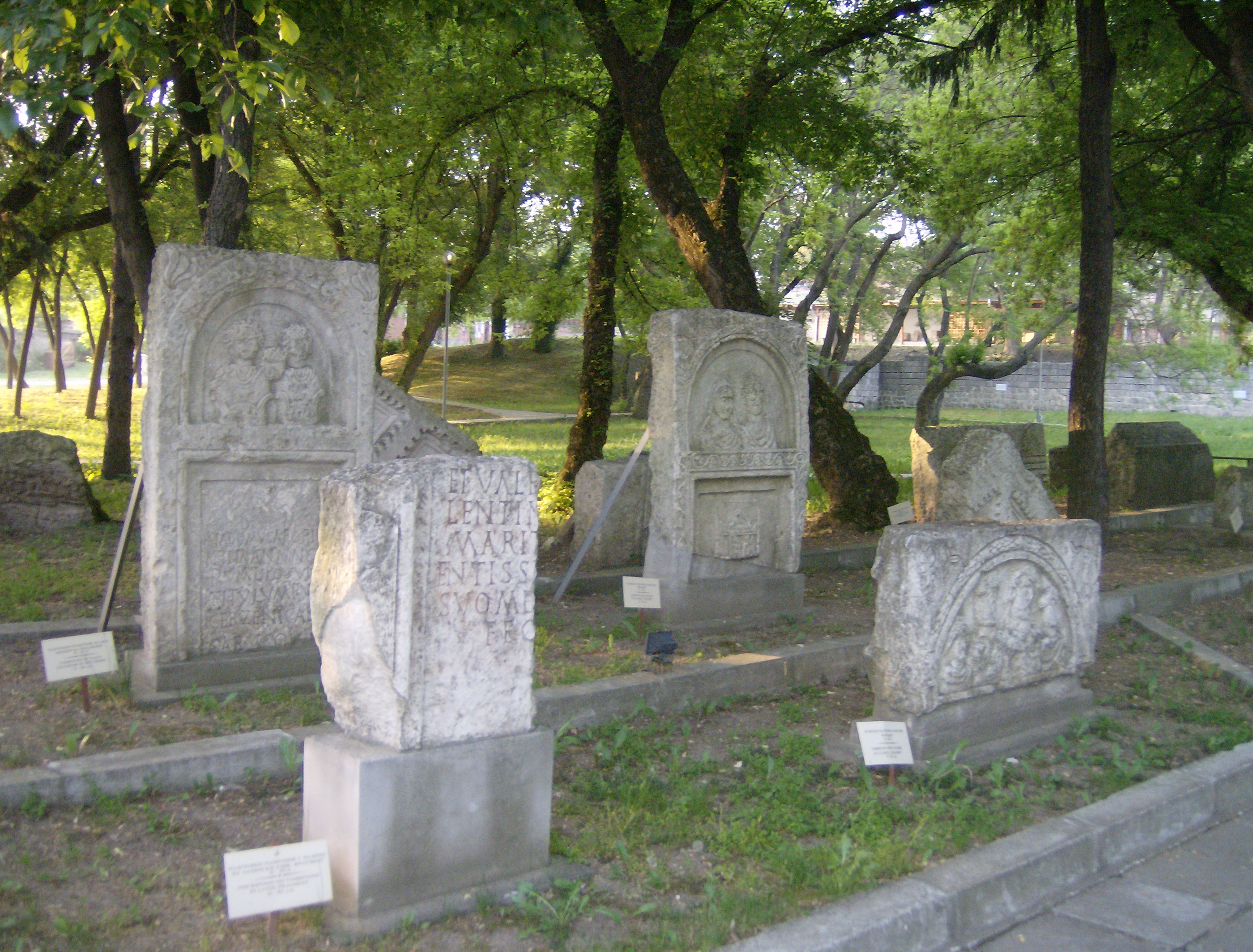 Abrittus